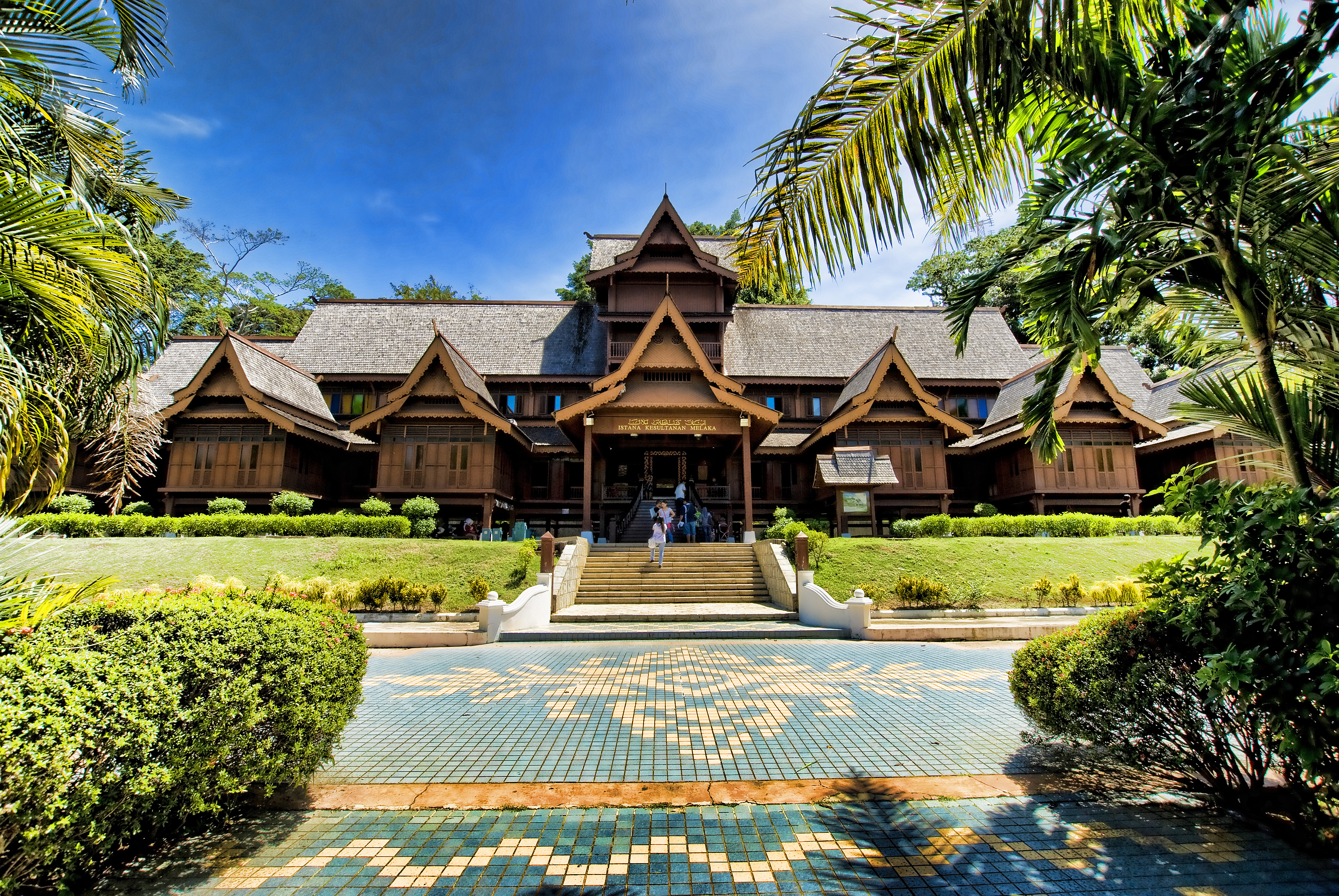 Malacca Sultanate Palace Museum